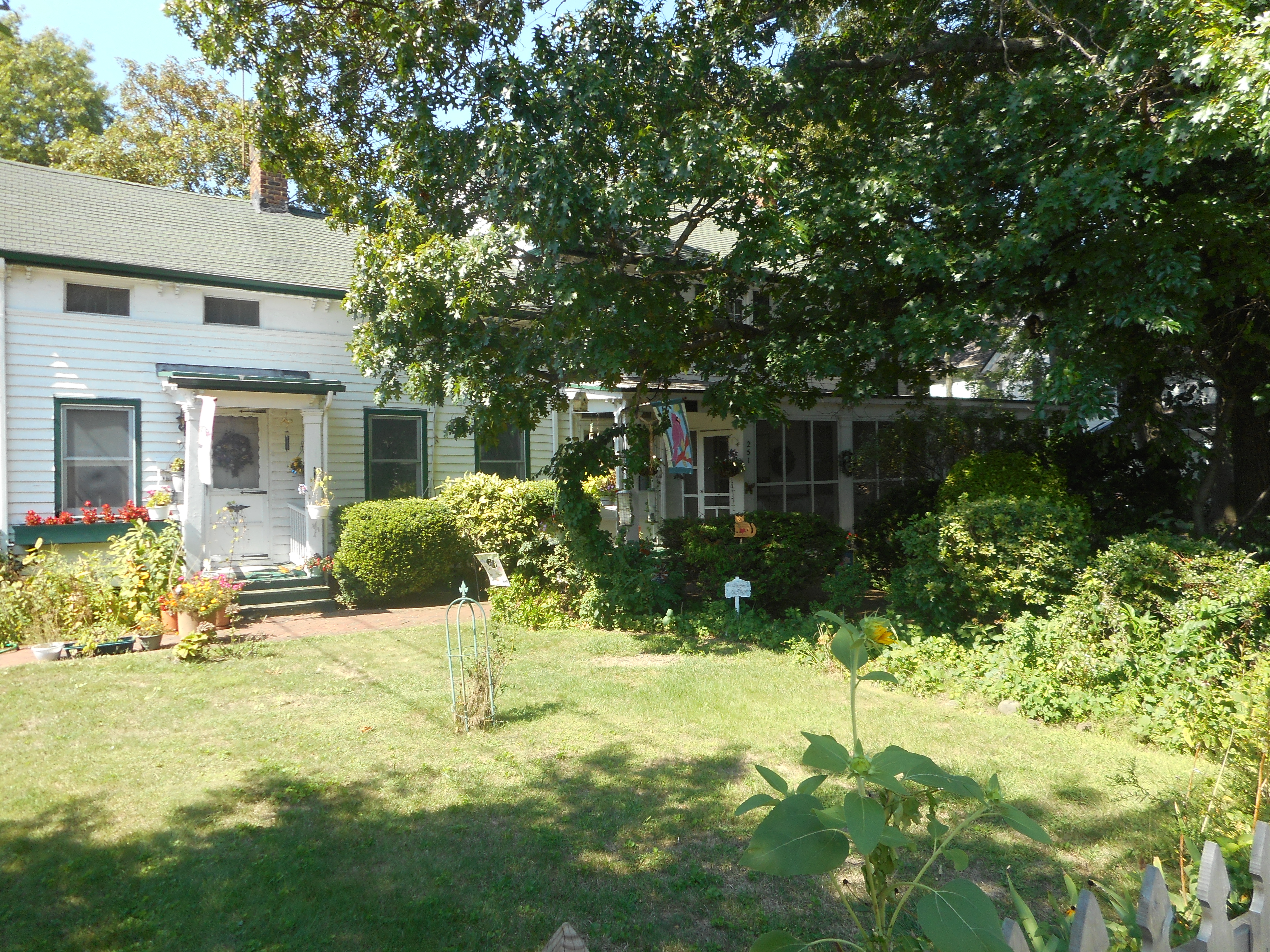 Historic house at 251 Rocklyn Avenue in Lynbrook, New York. Further details to come later.